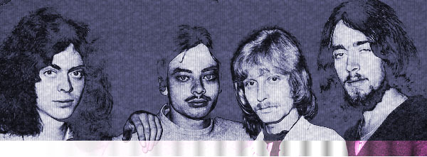 Band portrait of the German rock band Proud Flesh from 1970